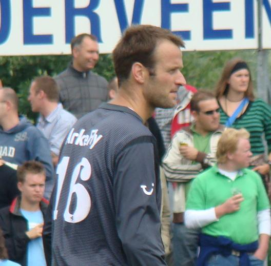 Image of the FC Twente-player Cees Paauwe